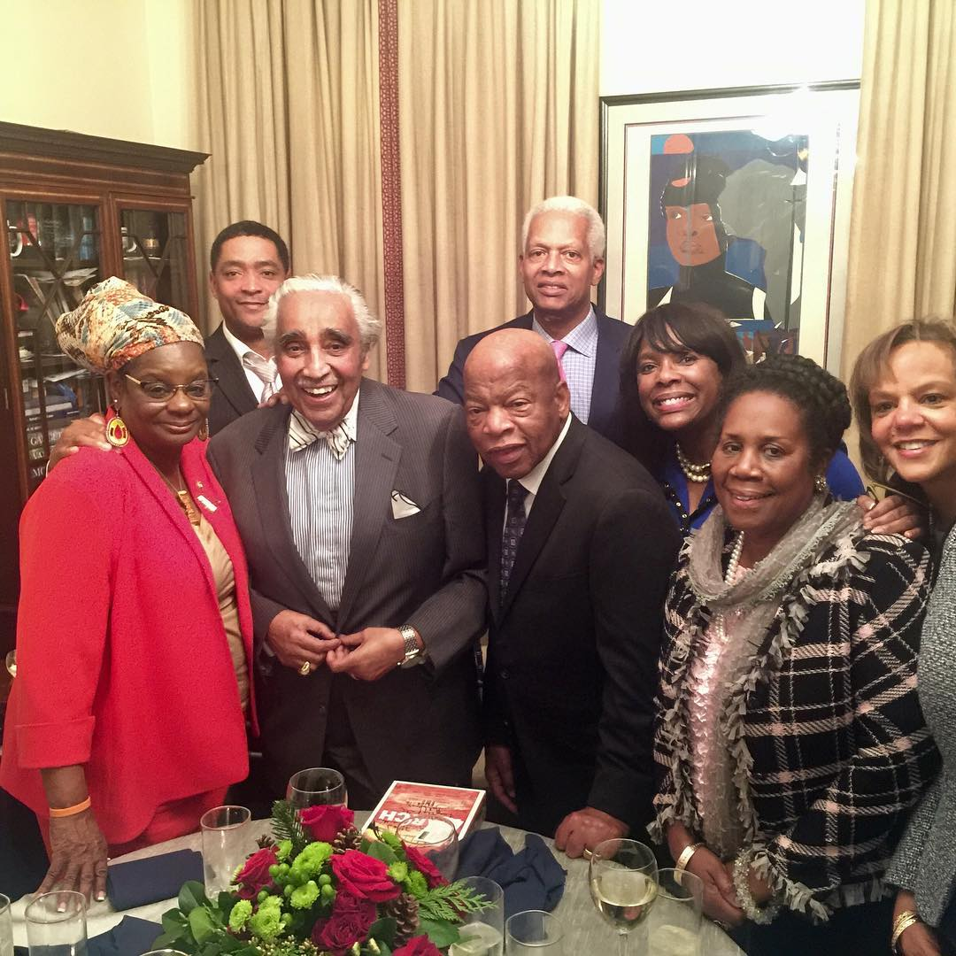 Great evening with @repjohnlewis and @cbrangel with my CBC colleagues! We will miss you Charlie! All the Best!!